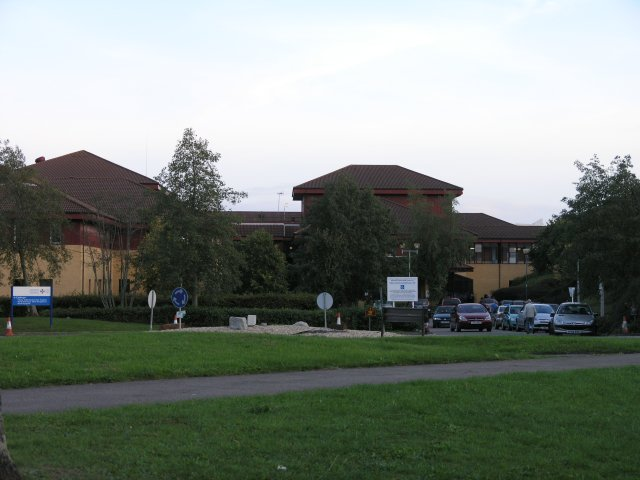 Prince Philip Hospital, Llanelli. Prince Philip Hospital is part of the Carmarthenshire NHS trust and provides full Accident & Emergency support for the area.